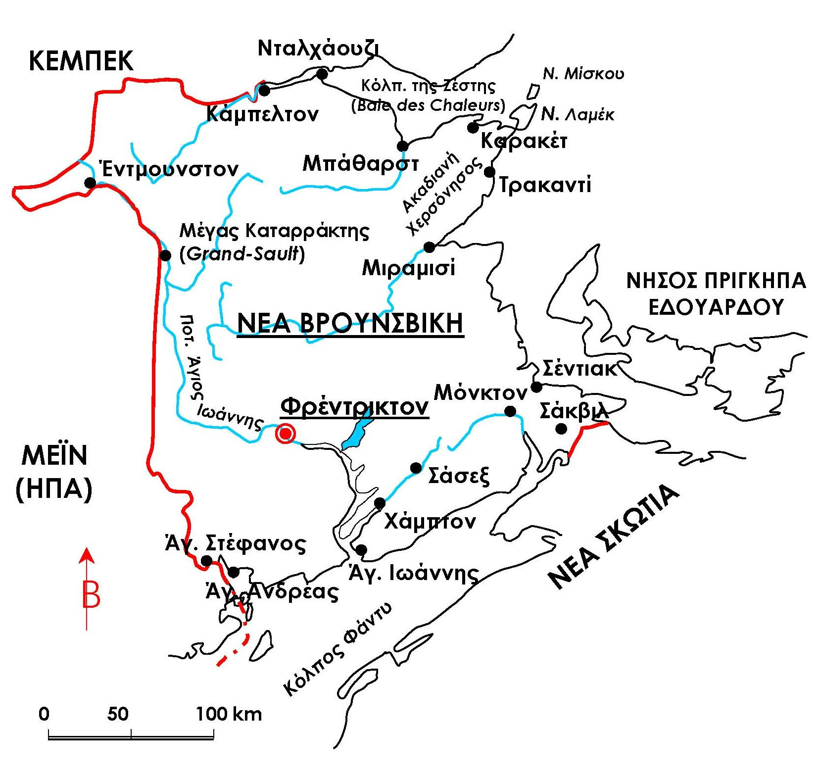 Greek map of New Brunswick